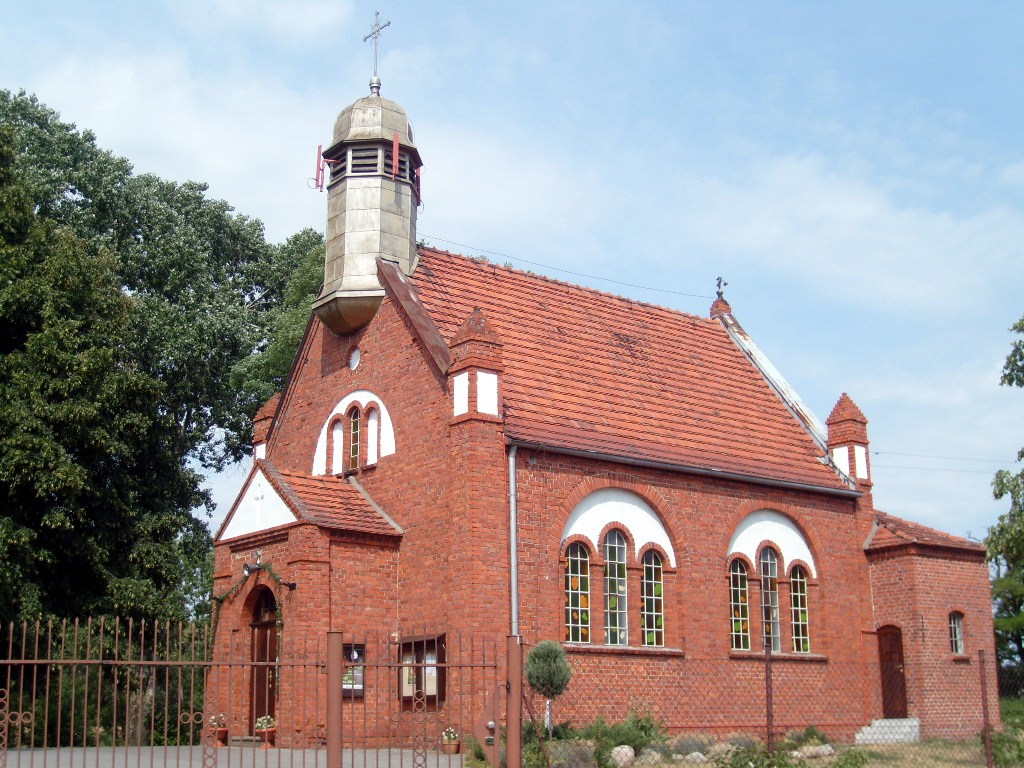 The church in Przyłęki, Poland